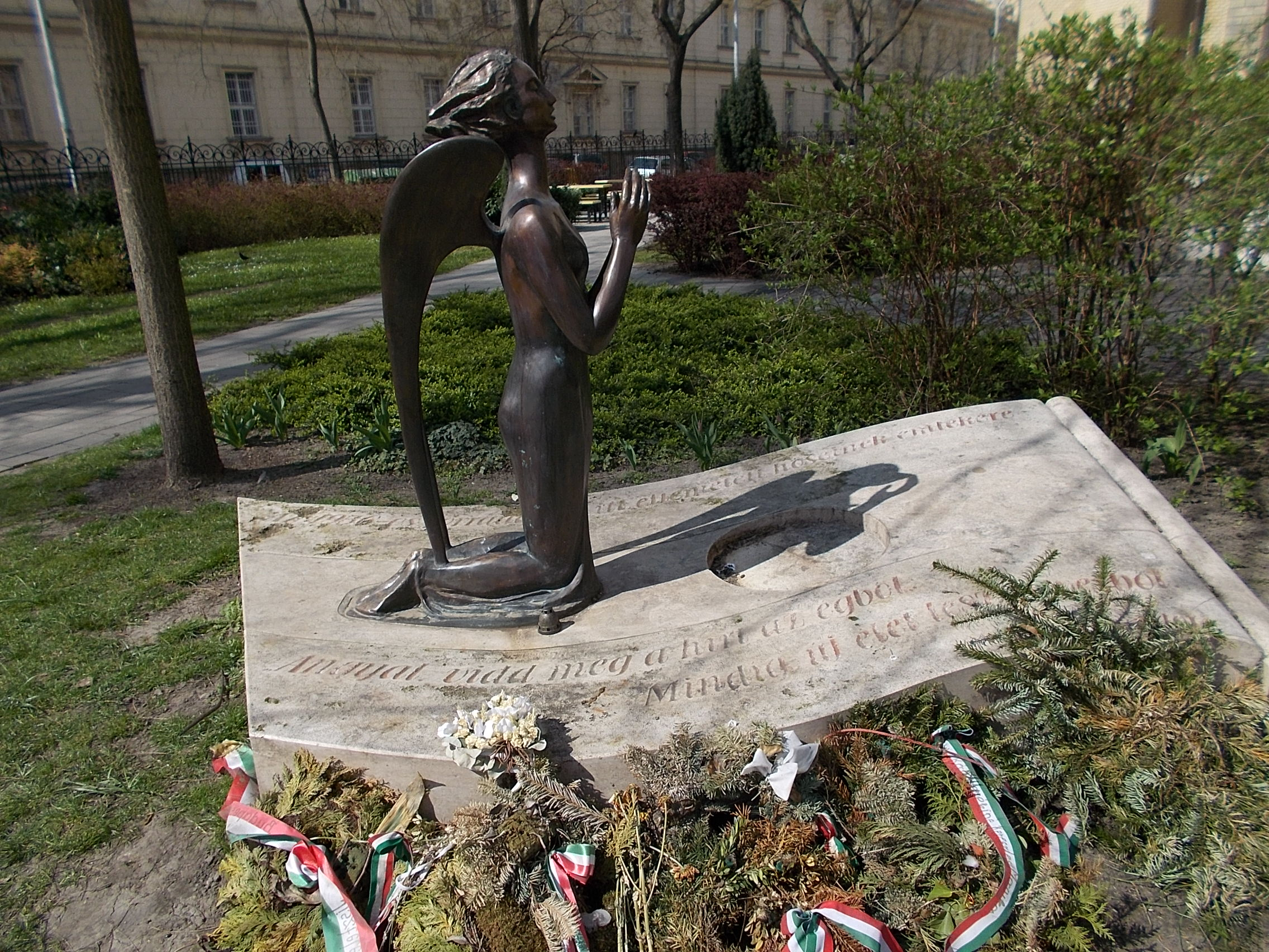 Angel statue, 1956 monument. A kneeling angel on torn flag. A poem by Sándor Márai inscribed on the flag. - Rózsák Square, Budapest District VII.